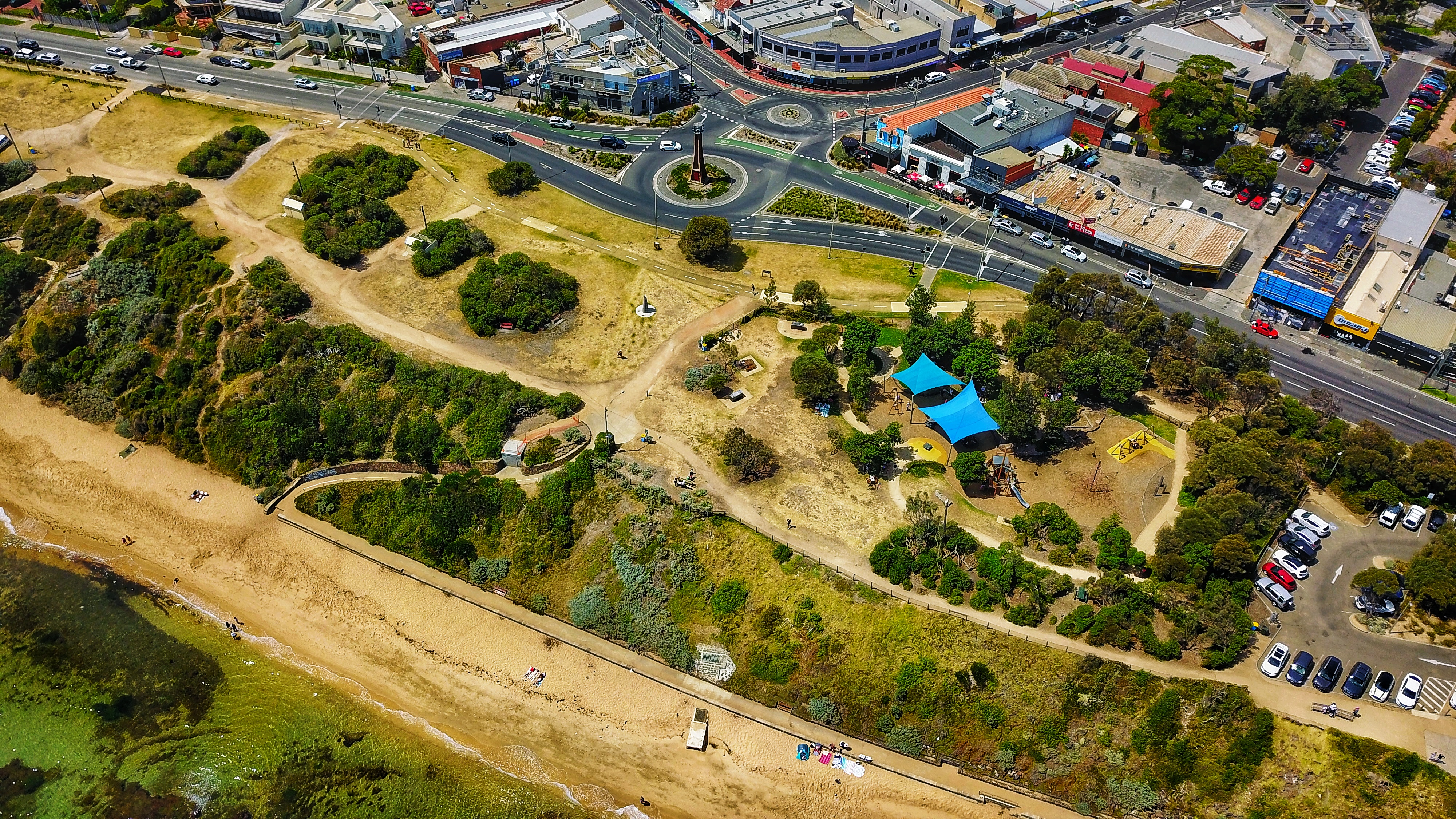 Aerial perspective of Black Rock Gardens and the iconic Black Rock clock tower. January 2019.